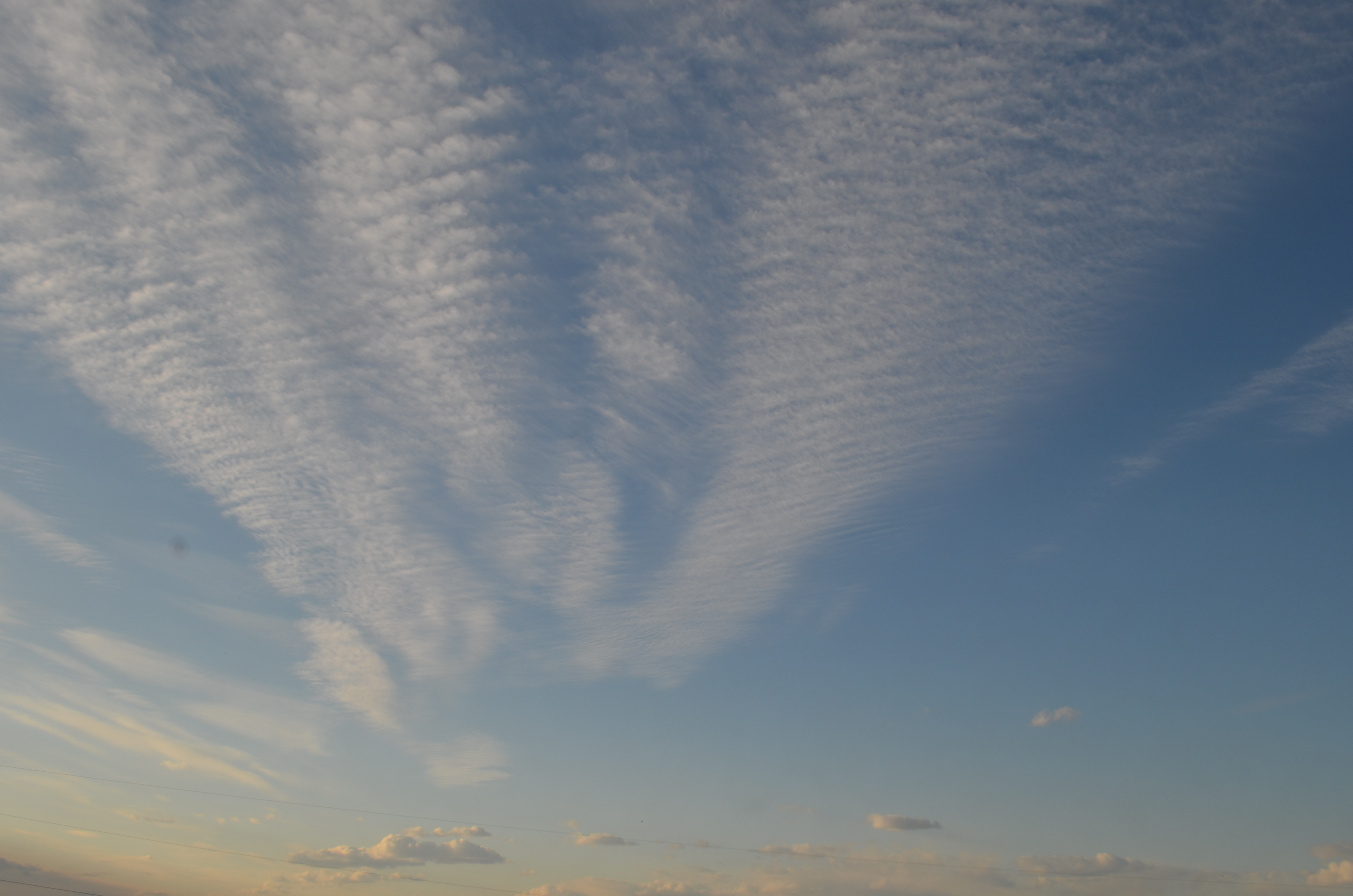 Cirrus clouds over Moscow, Russia on April 23, 2020.